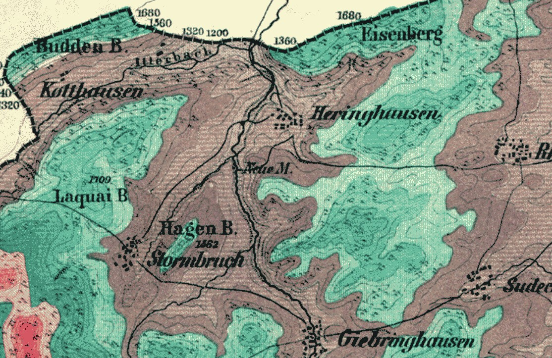 Part of Map: Heringhausen 1866 Niveau-Karte der Fürstenthümer Waldeck und Pyrmont samt der Hessen-Darmstädtischen Enclaven Herrschaft Itter, Eimelrode, Höringhausen 1866